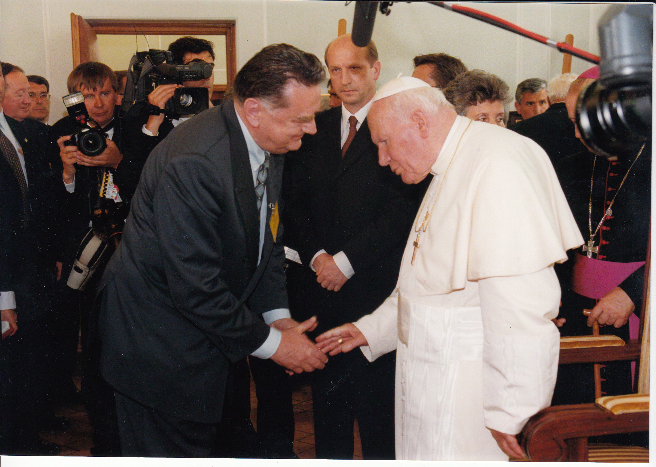 Visit of John Paul II to the Parliament of the Republic of Poland. June 11, 1999. The Pope greets the former Prime Minister of the Republic of Poland, Jan Olszewski.